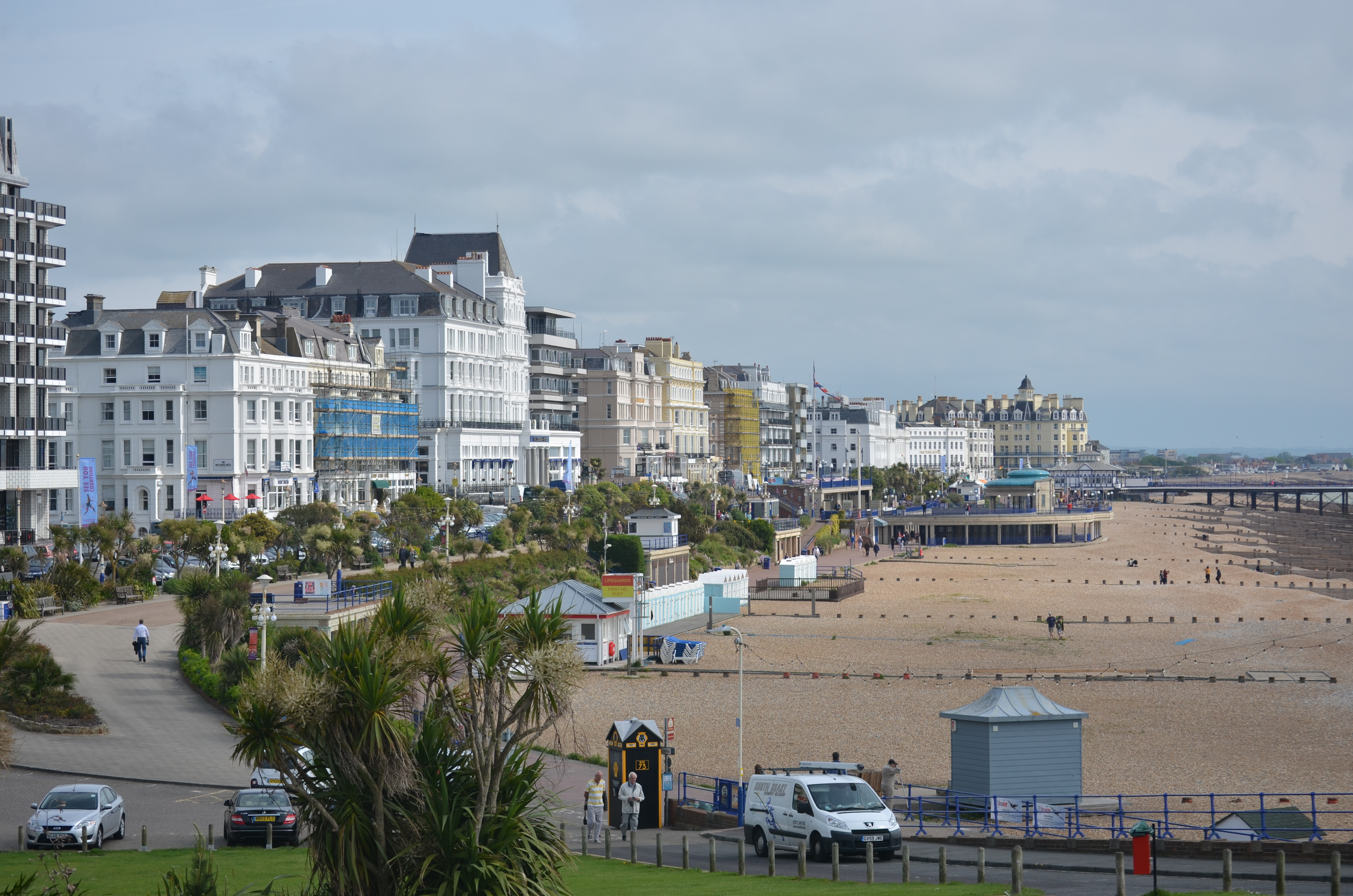 Eastbourne seafront